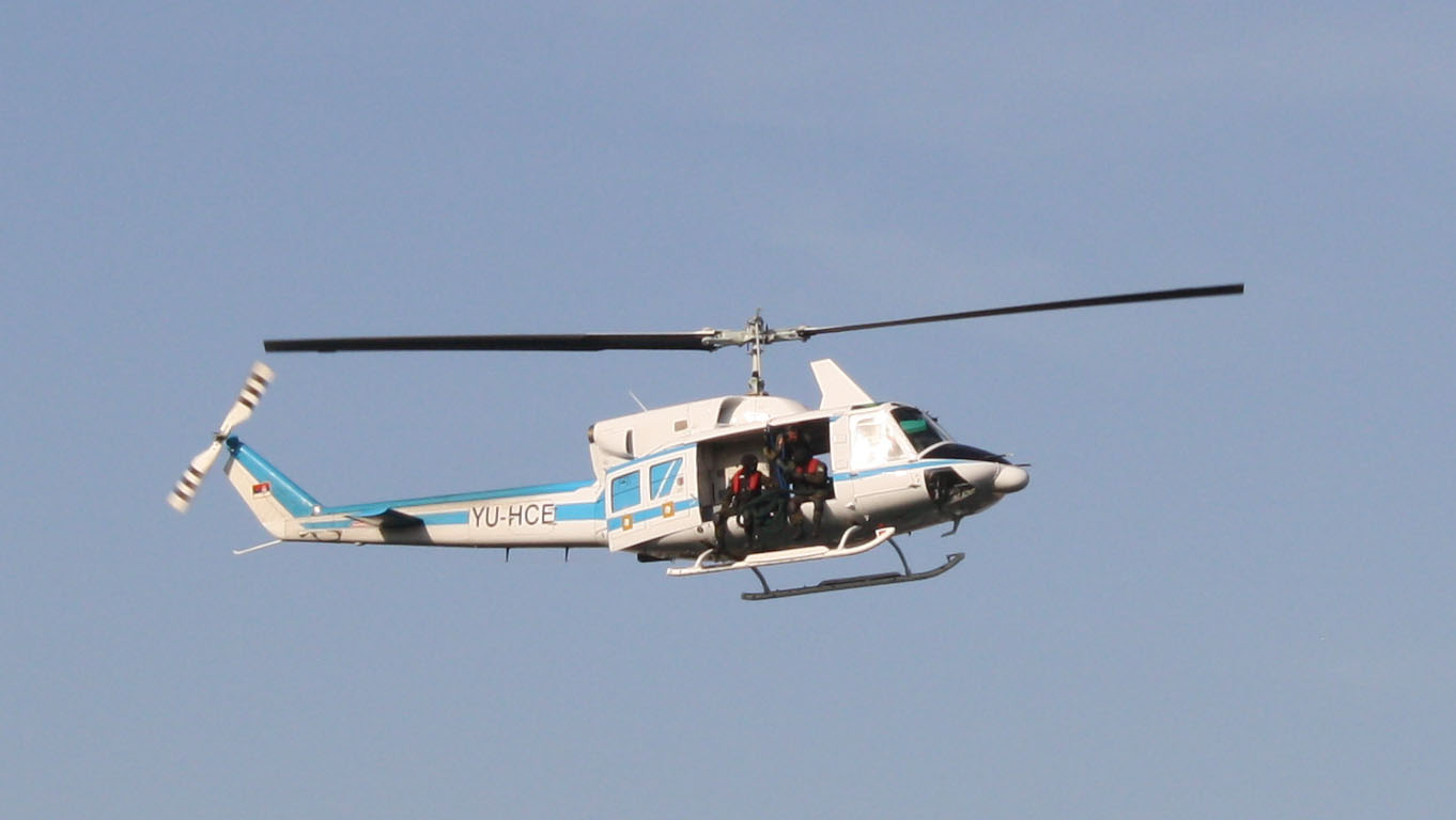 Agusta Bell 212 helicopter of Serbian Police.